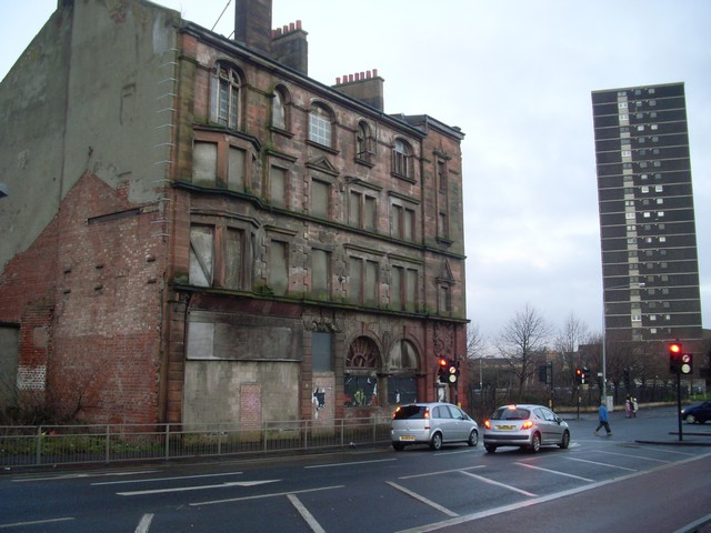 Transition in Gorbals housing To the left is a derelict tenement building, which was historically very typical of the Gorbals area. The highrise flat to the right is typical of the 1960s redevelopment program designed to regenerate the area, but which most will agree failed to do so.